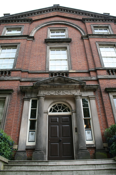 Pickford House derby